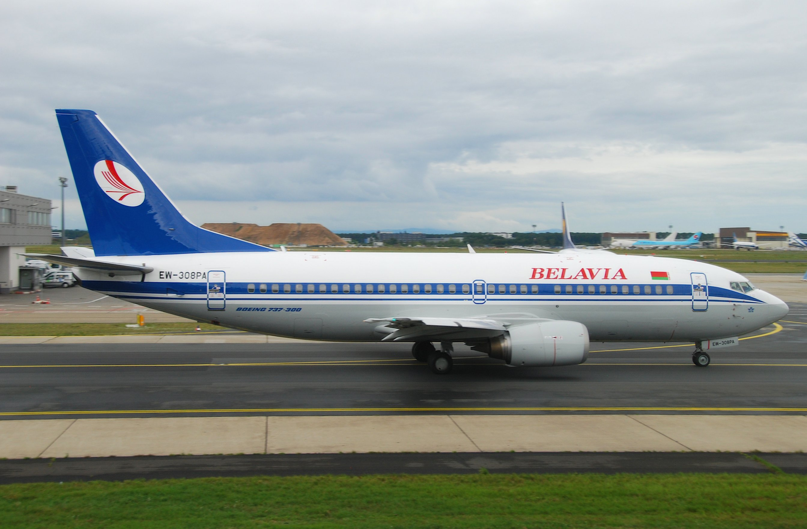 This Boeing 737-3K2 took its first flight on April 19, 1990... 03/05/1990 Transavia Airlines PH-HVT 01/11/1997 Transwede PH-HVT 29/03/1998 Transavia Airlines PH-HVT 18/02/2001 Cameroon Airlines PH-HVT 01/03/2001 Transavia Airlines PH-HVT 06/02/2002 Air One PH-HVT 04/04/2002 Transavia Airlines PH-HVT 27/11/2002 Norwegian Air Shuttle LN-KKH left fleet 11/2010 29/04/2011 Belavia EW-308PA